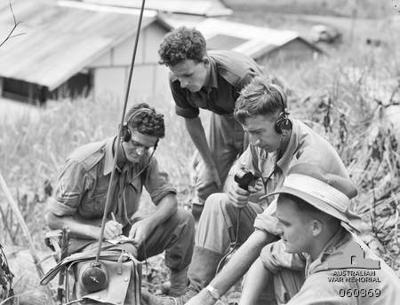 Sogeri, New Guinea. 1943-11-20. Students of the School of Signals, New Guinea Force, Working with a 108 Army Wireless Set at the School. Shown is: Nx20186 Corporal R. L. Saunders (extreme left).